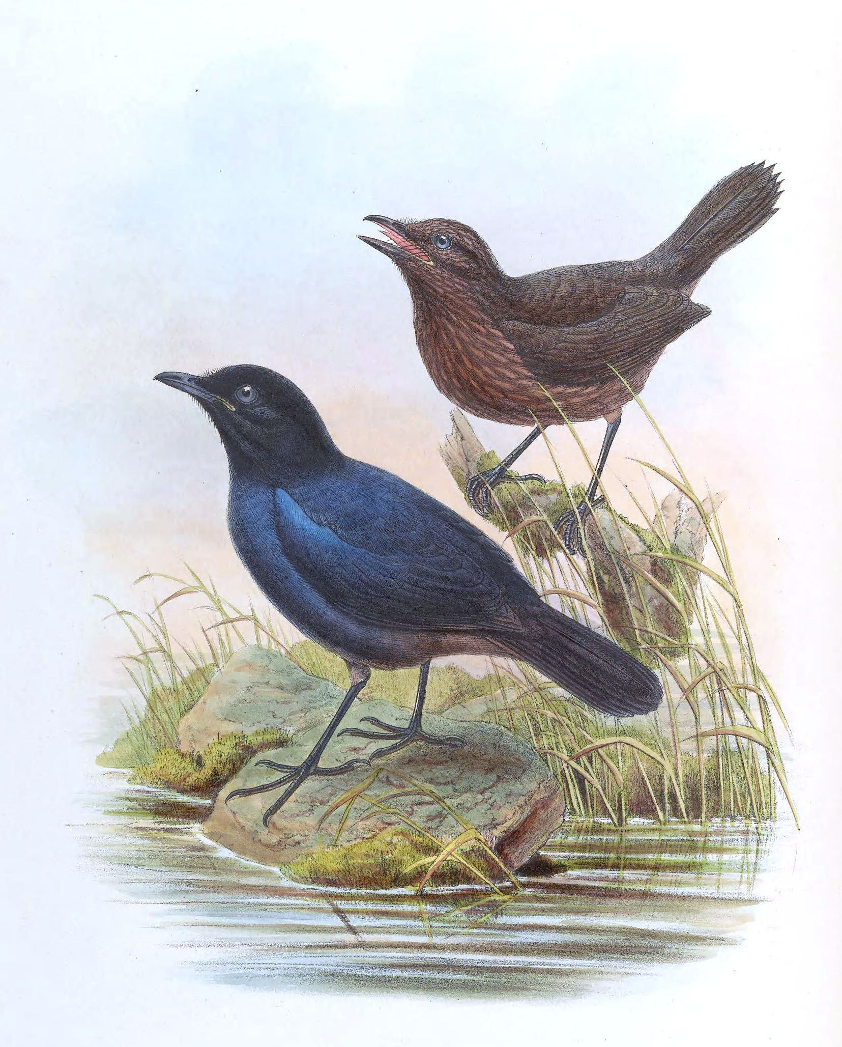 Myiophonus blighi = Myophonus blighi